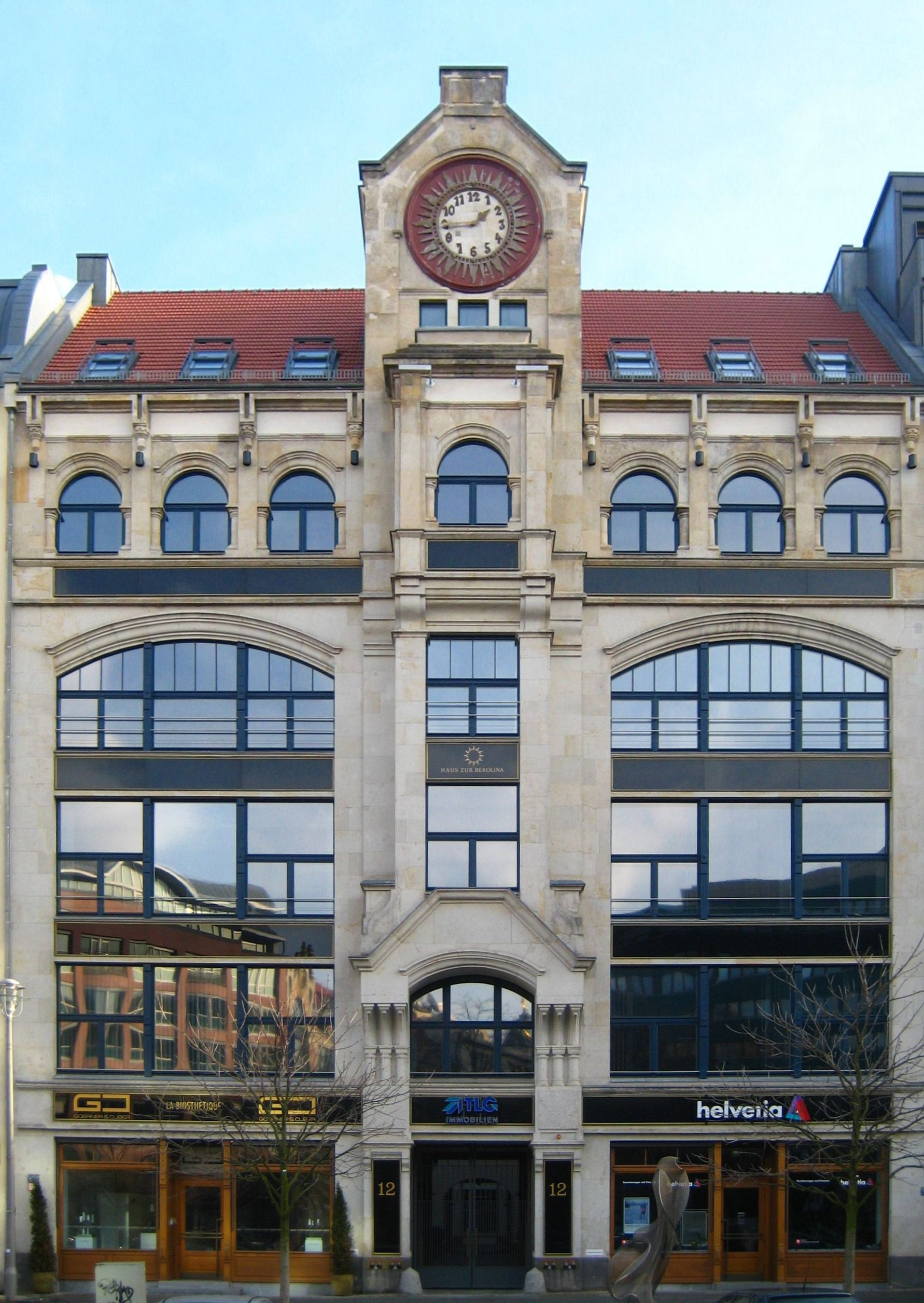 "Haus zur Berolina"; commercial building at Hausvogteiplatz (house number 12) in Berlin-Mitte by architects Hermann August Krause and Alterthum & Zadek. The building was designed according to the needs of clothing companies which used it as storage building and for clothing stores. Up to 1930s, Hausvogteiplatz was the center of the Jewish textile trade in Berlin and several companies and stores owned by Jews used to reside in this building.